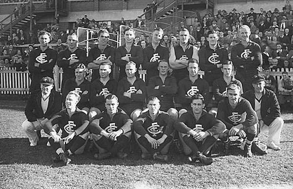 Carlton FC team, premiers